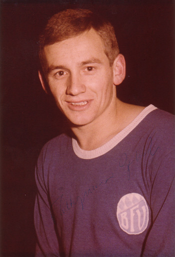 German footballer Gerhard Faltermeier 1968 in the dress of the "Bayrische Verbandsauswahl"